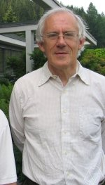 Charles Leedham-Green, British mathematician